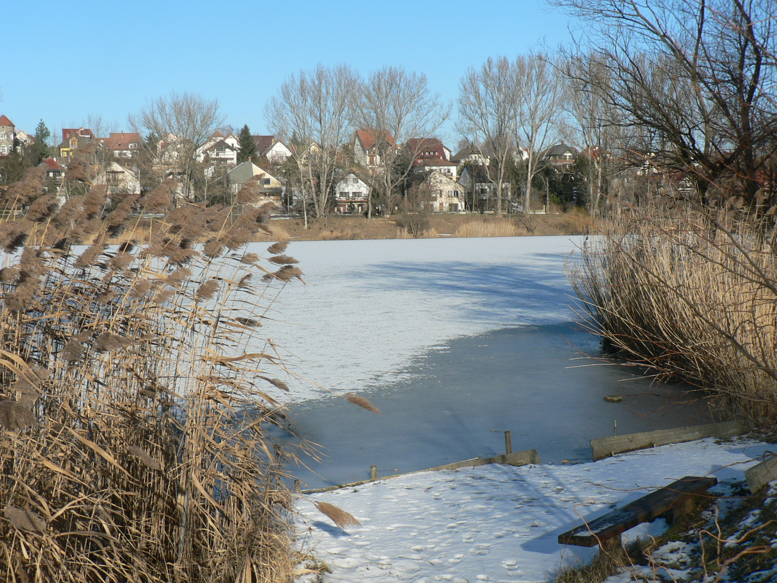 Befagyott Slötyi